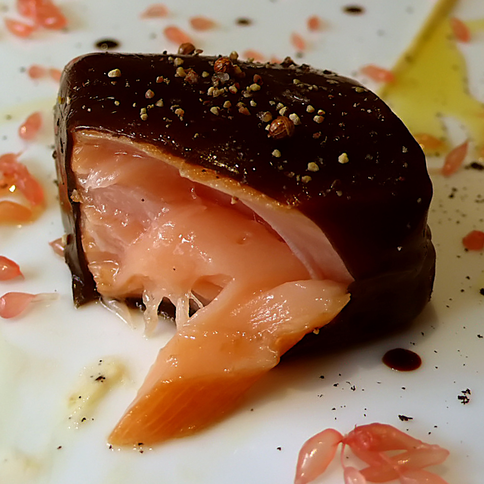 Salmon steamed in licorice gel at 'The Fat Duck' restaurant.